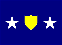 Standard of a Adjutant General of the U.S. Army